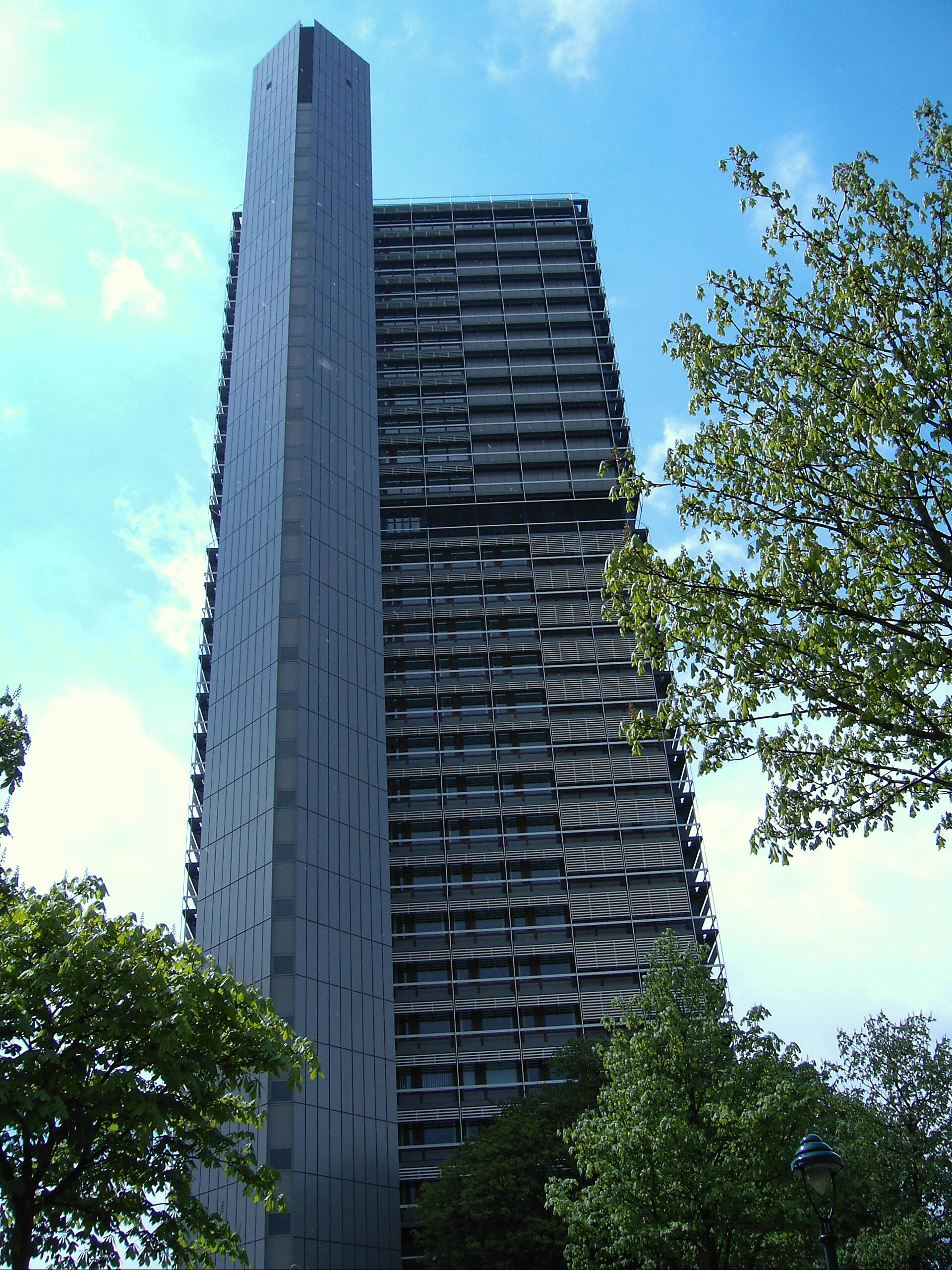 Side view of the building Langer Eugen (“Tall Eugen”) in Bonn. The building is the headquarters of several UN Organizations.